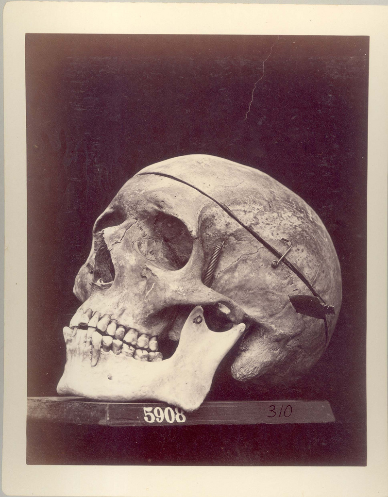 SP 310 Cranium with an Iron Arrow-Head impacted in the left Temporal Bone Private Martin W..., Troop E, 4th Cavalry, was killed by Indians on September 30, 1870, twenty miles from Fort Concho, Texas, while on duty as one of the mail-stage guard from Fort Chadbourne. The escort being attacked by a band of Comanches, this soldier was wounded by an iron-headed arrow, which entered the squamous portion of the temporal bone, and penetrated the left cerebral hemisphere to a depth of an inch or more, causing intracranial bleeding which was speedily fatal. The pathological specimen, with the history, was forwarded to the Army Medical Museum by Assistant Surgeon W.M. Notson, U.S.A., and is numbered 5908 of the Surgical Section. A puncture of the thin calvaria, without fissuring, is well indicated. Internally there is no splintering. The vitrous table is as cleanly divided as the outer table. Photographed at the Army Medical Museum by order of the Surgeon General: George A, Otis, Ass't Surgeon, U.S.A., Curator, A.M.M.